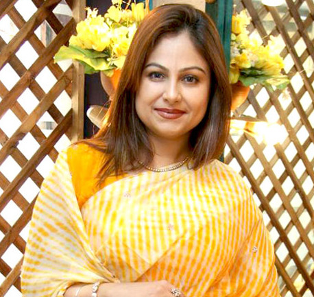 Ayesha Julka at the opening of her second branch of Spa salon nails 'Anantaa'